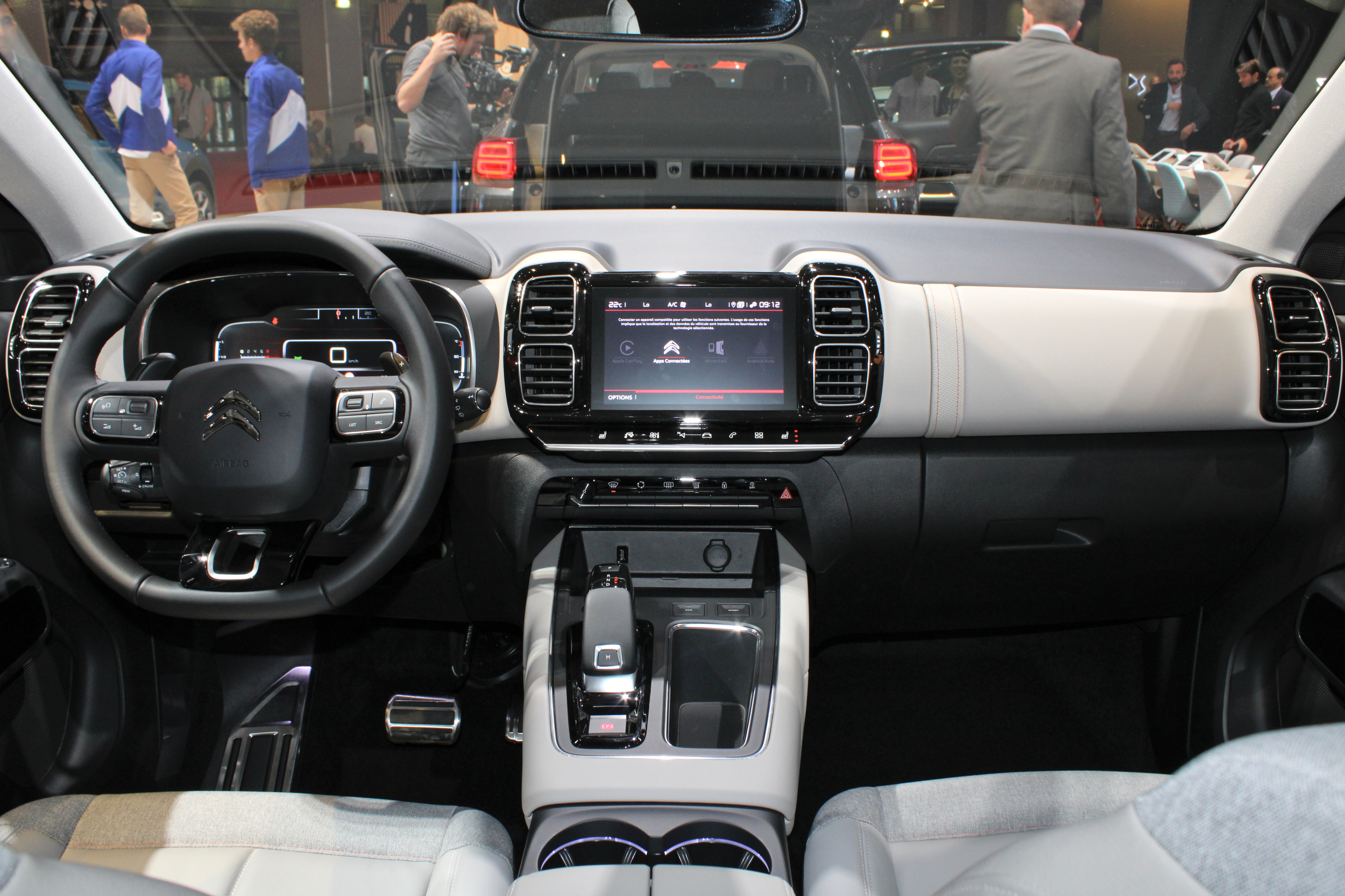 Citroen C5 Aircross at Paris Motor Show 2018